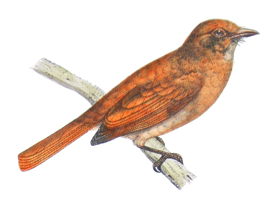 Casiornis typus Pr. Ch. Bonap. = Casiornis rufus (Vieillot, 1816)